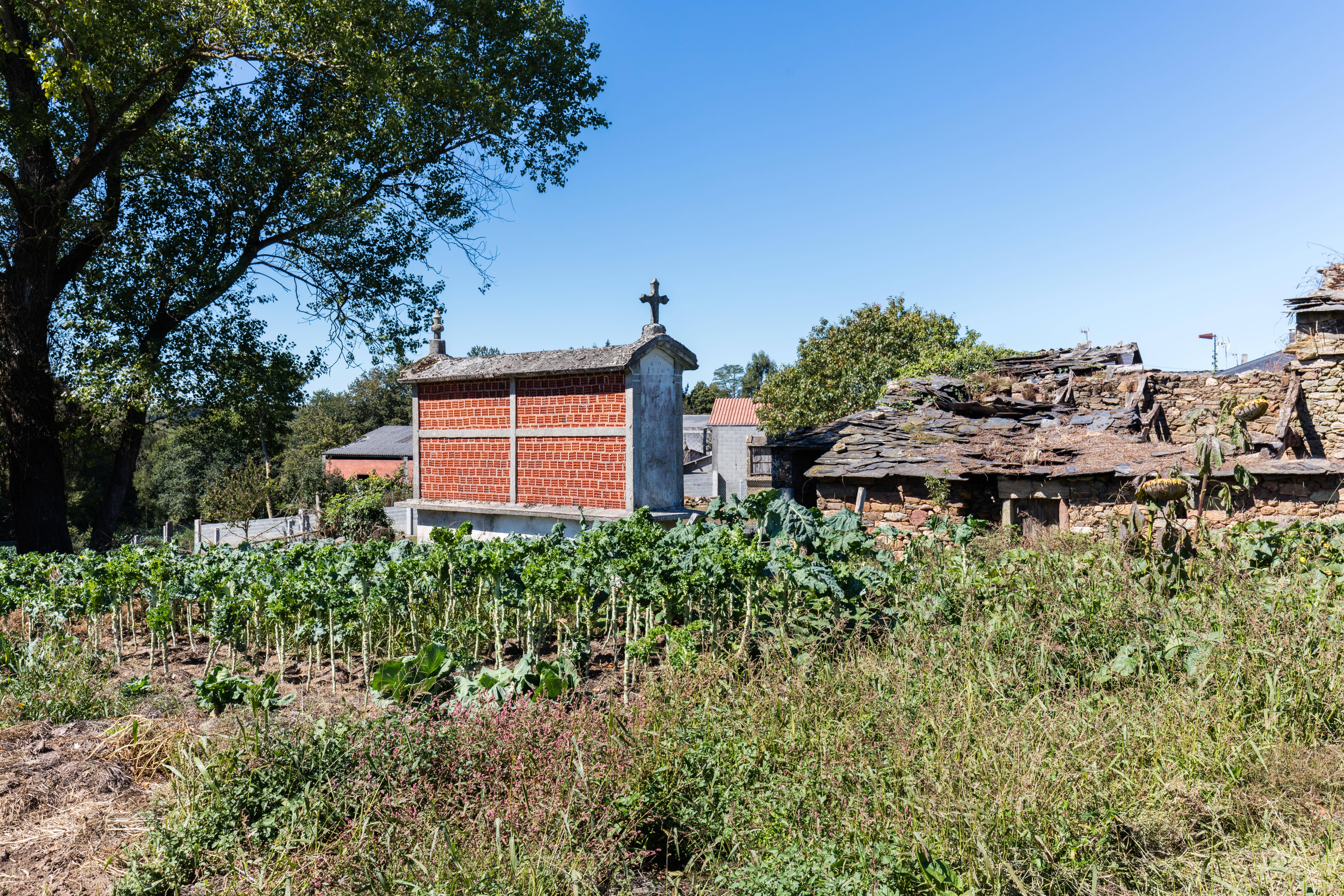 Hórreo in St James's Way, Lugo, Spain